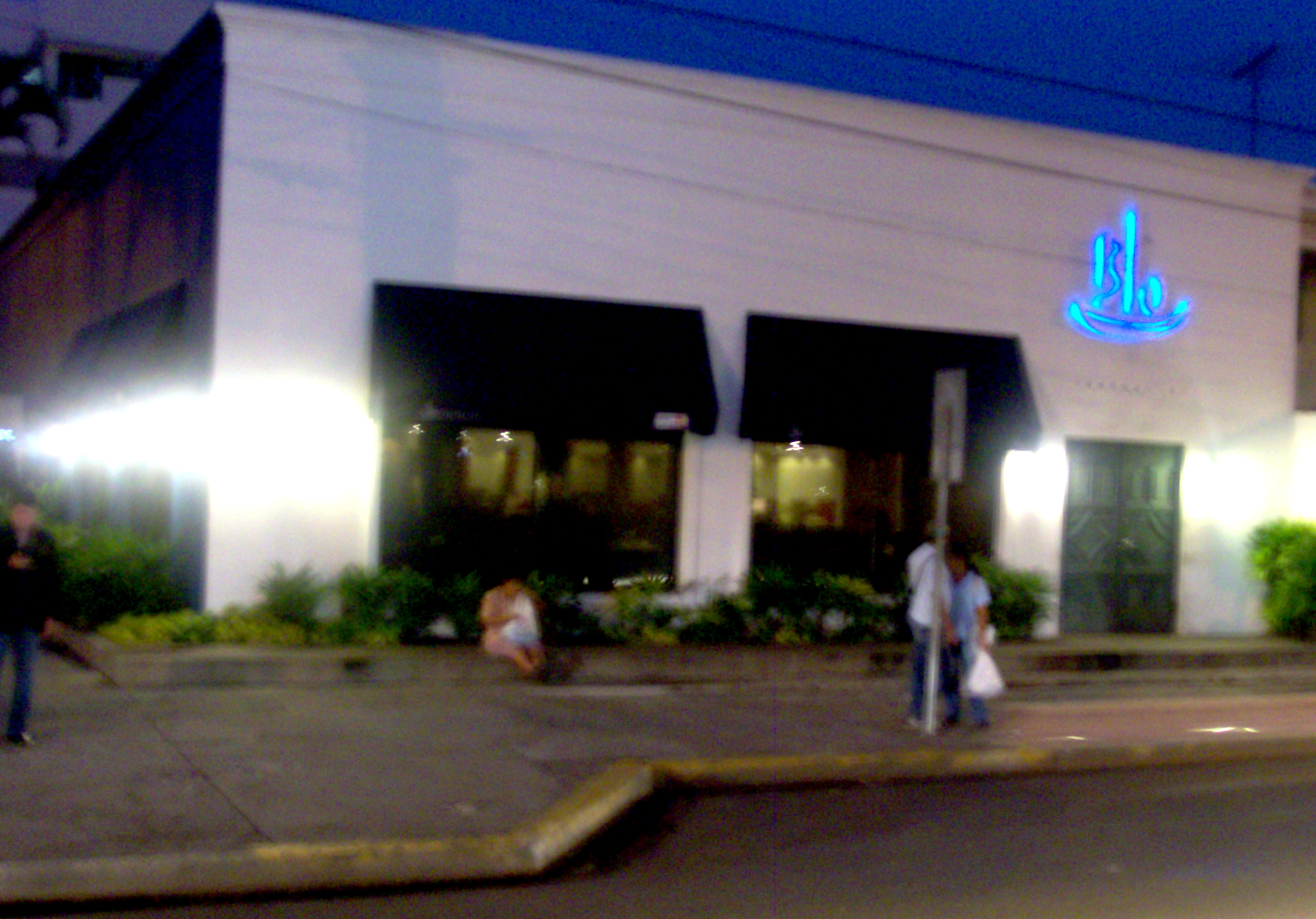 Blu Restaurant in Urdesa, Guayaquil, Ecuador